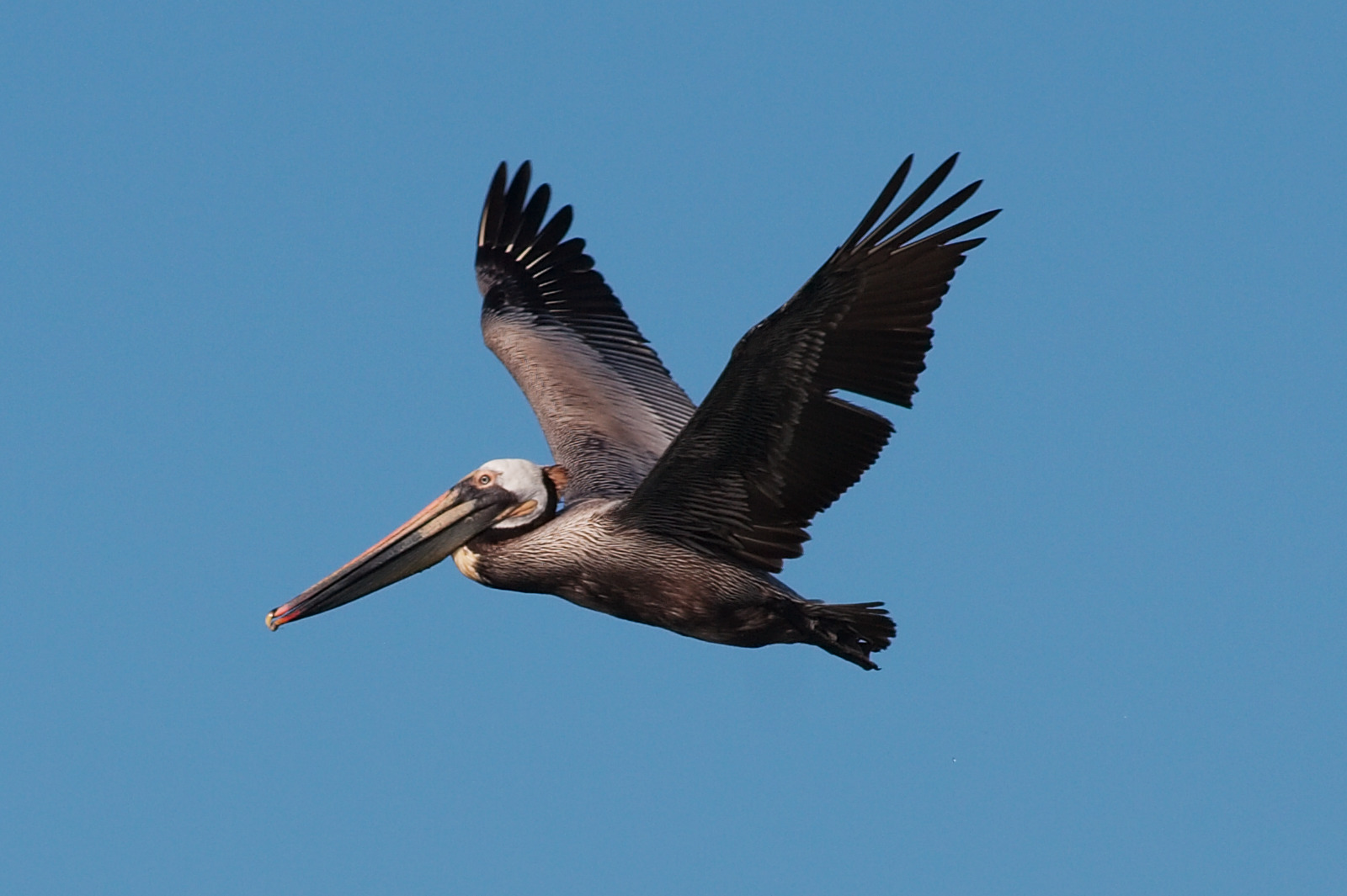 A brown pelican (Pelecanus occidentalis), in Santa Barbara, California